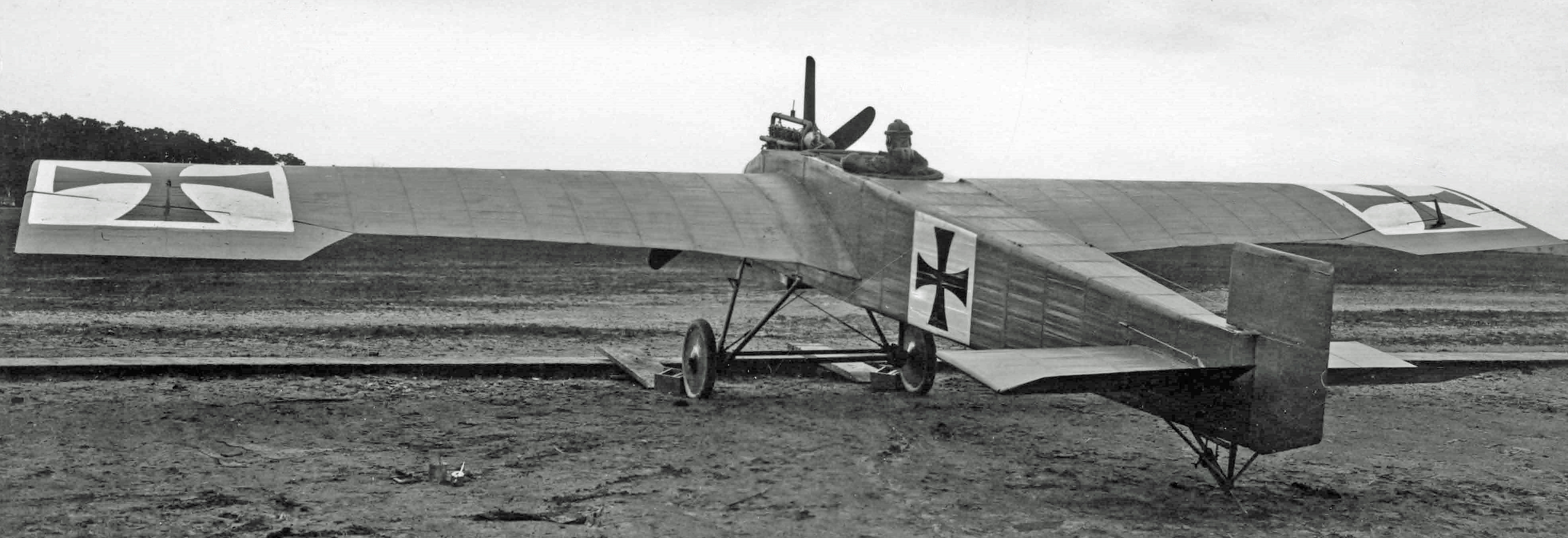 Junkers J 1 all metal "technology demonstrator" pioneer aircraft, at FEA (Fliegerersatzabteilung) 1, Döberitz, Germany 12 December 1915, undergoing flight preparations for maiden flight